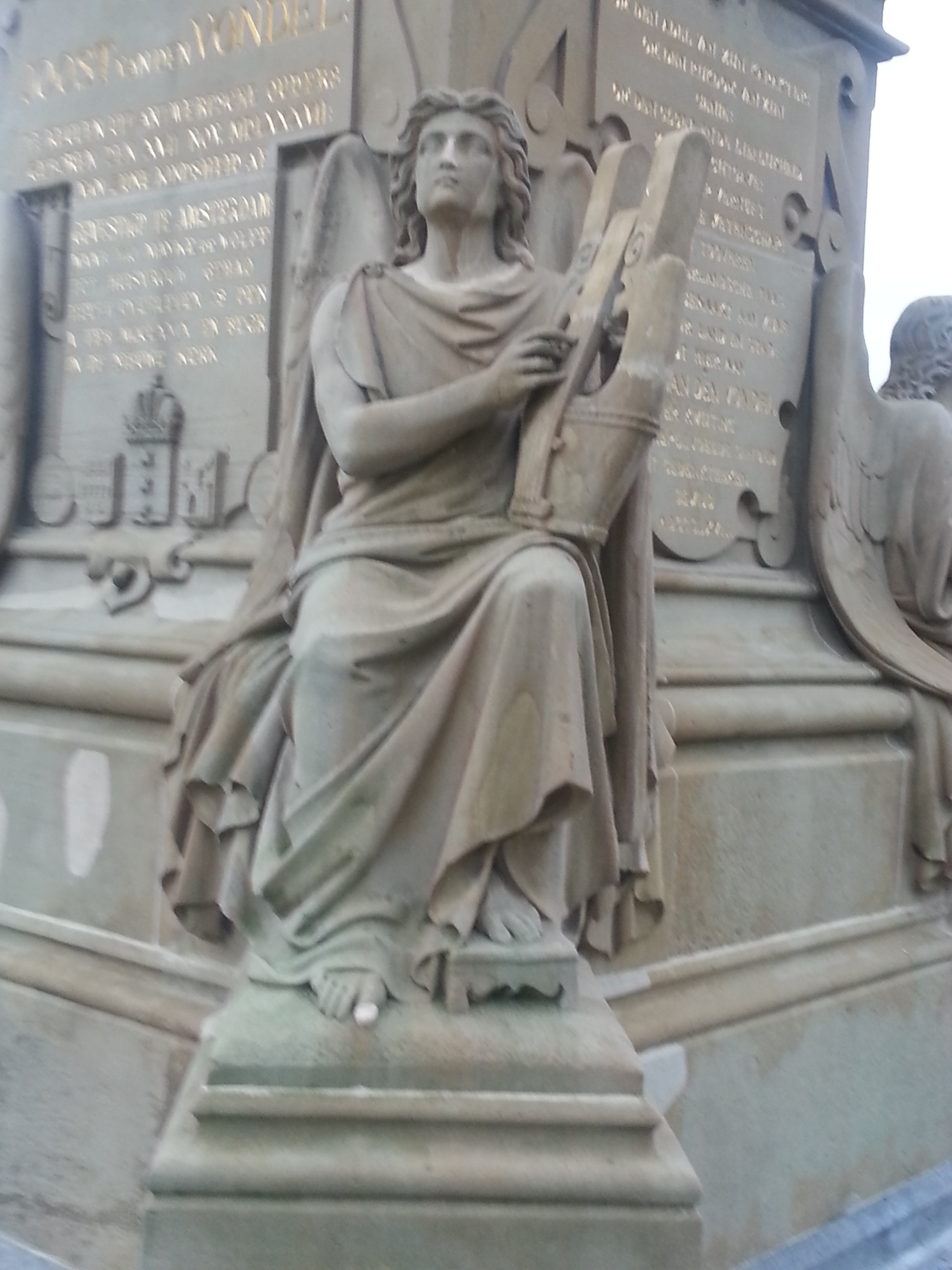 Angel with harp at Vondelpark